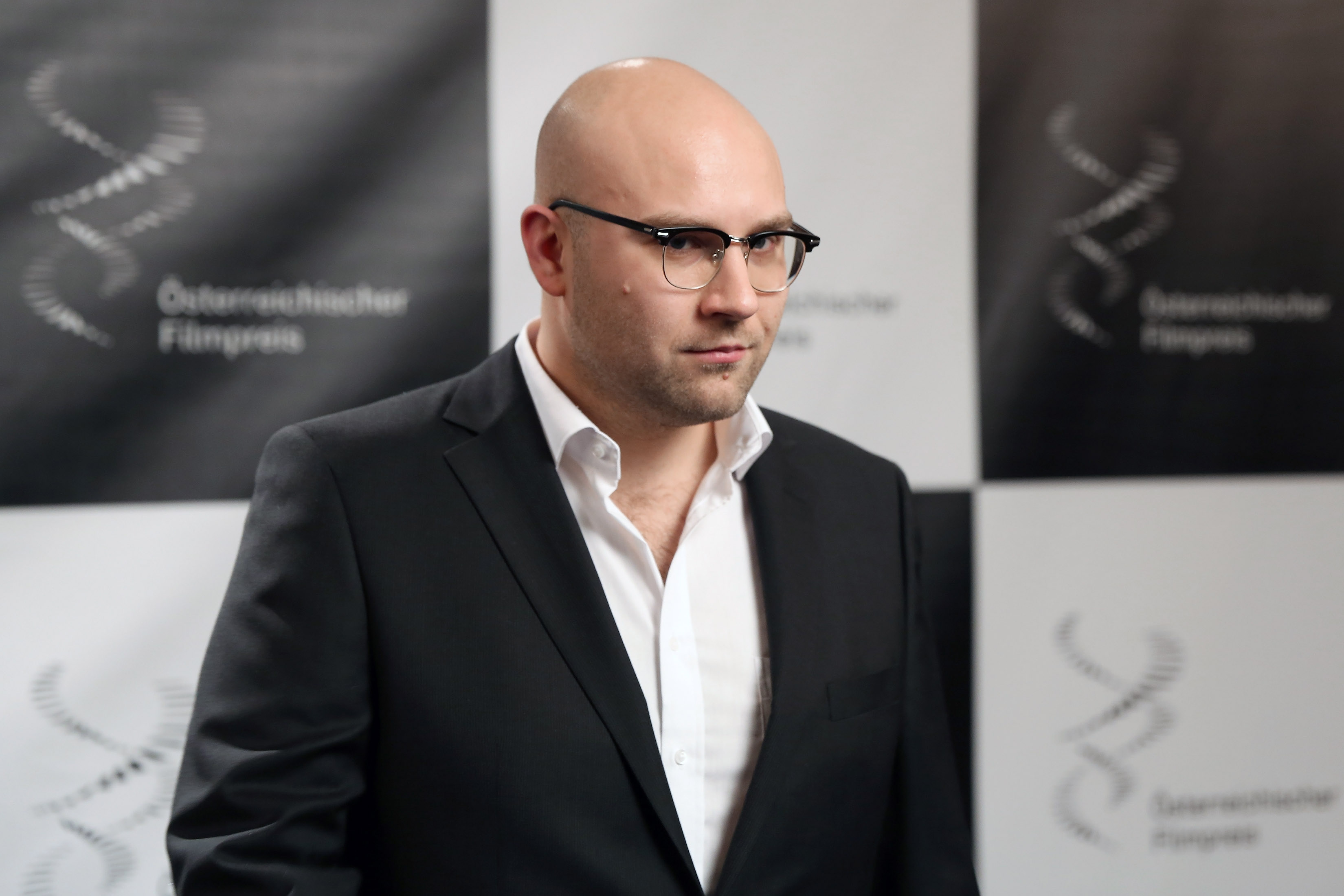 Marc Schlegel at the Austrian Film Awards 2015 at Rathaus, Vienna,Austria.